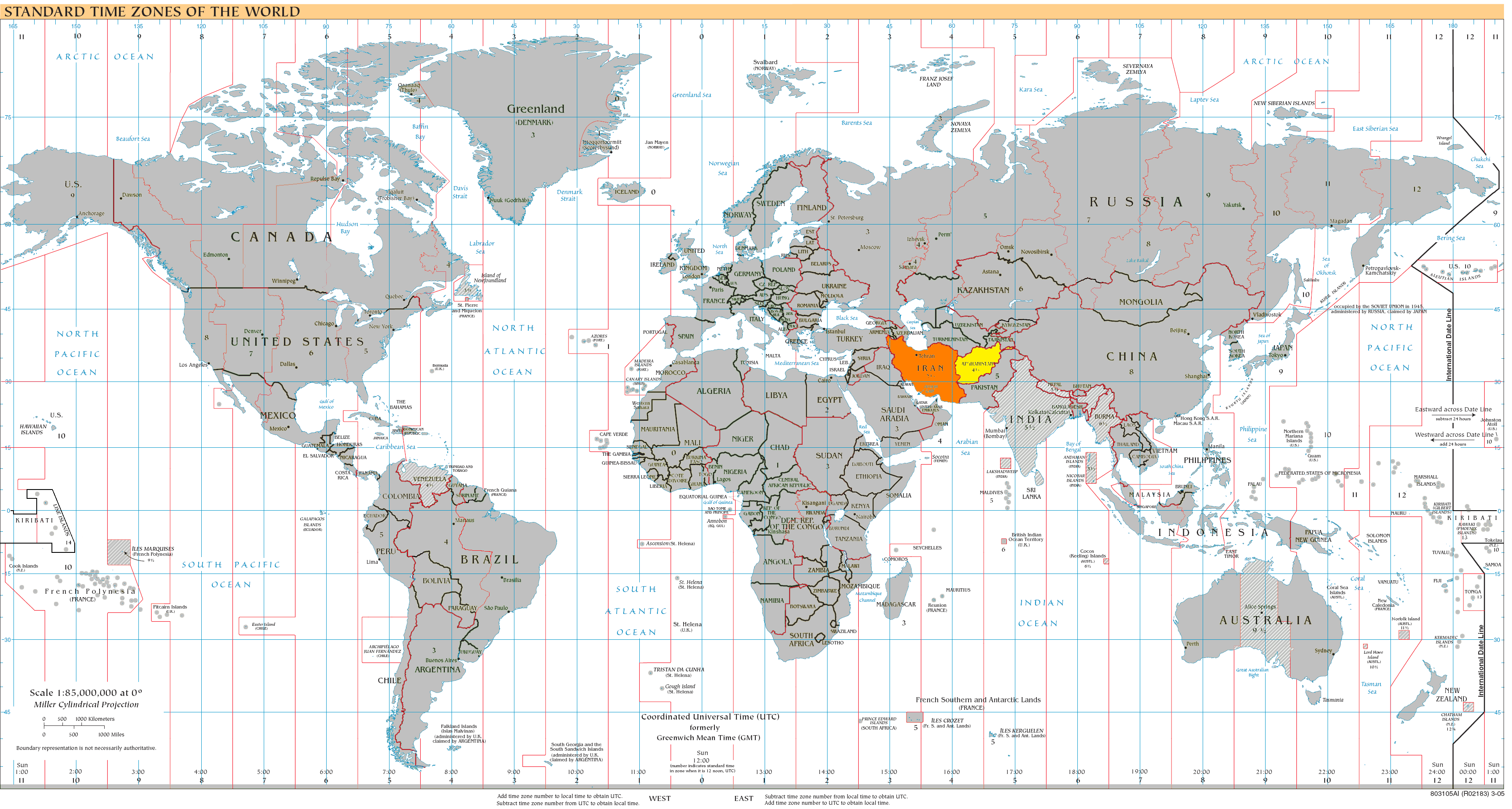 World map of time zones as of 2008, on the Miller Cylindrical Projection and with highlighted UTC+ zone. Orange: UTC+4:30 Northern Summer/Southern Winter Yellow: UTC+4:30 all year round